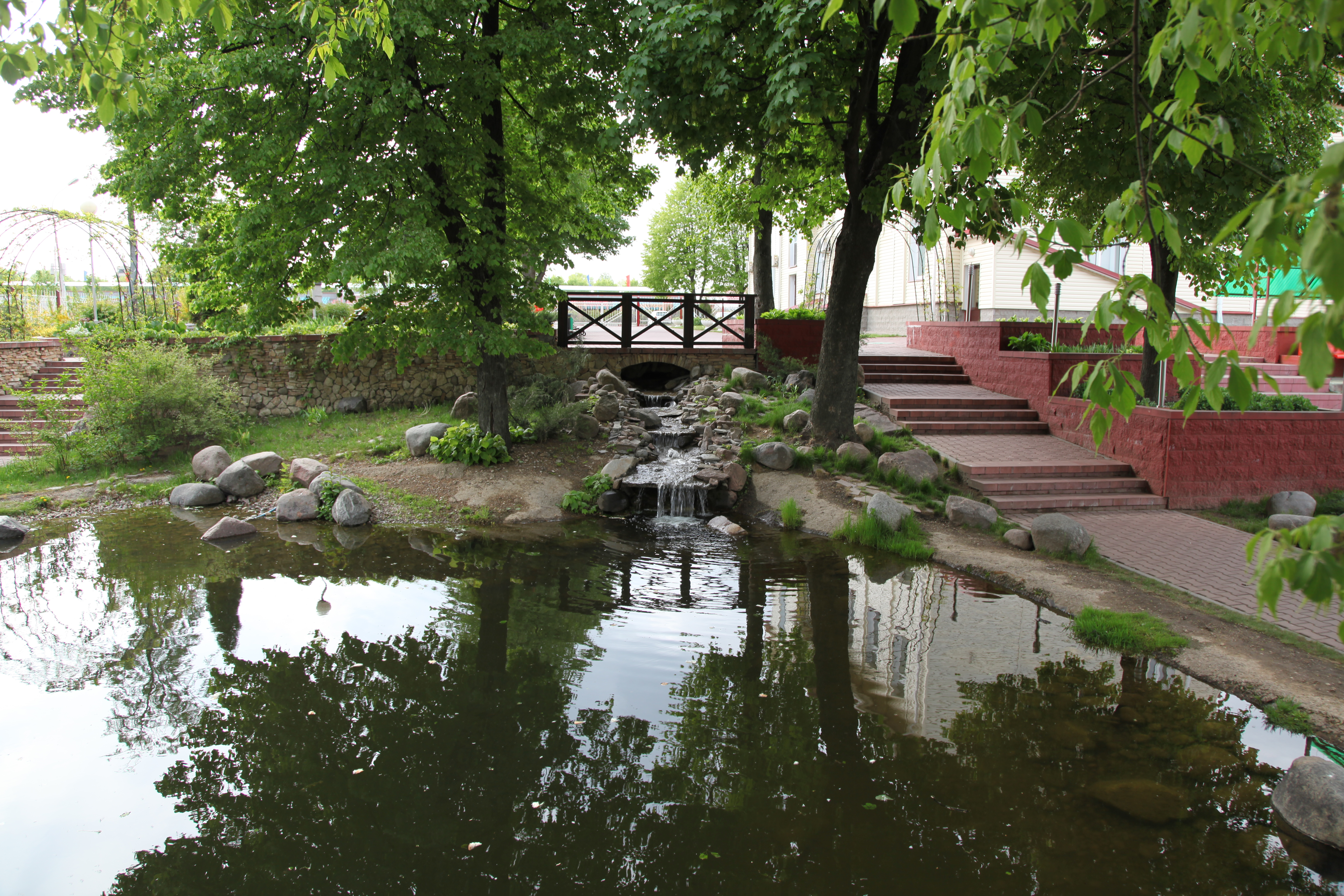 Romantic garden is situated behind the main building